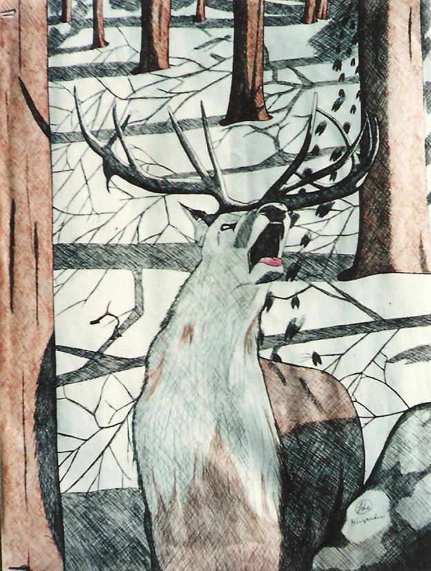 Artist: Larry D. Alexander Source: Larry D. Alexander's Home Files Title: "Moose Call" Medium: Pen and Ink Drawing 18"x24"